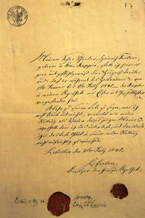 Reference for Theodor Fontane by his father